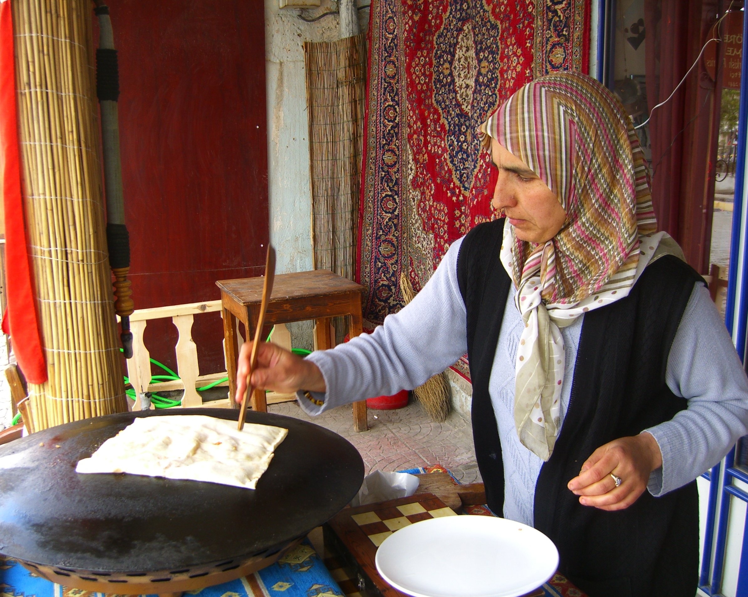 Central Anatolian Cafe Owner Flat Bread with Beautiful Rug Hanging Goreme Cappadocia 2006. Photo credit Jan Cadoret